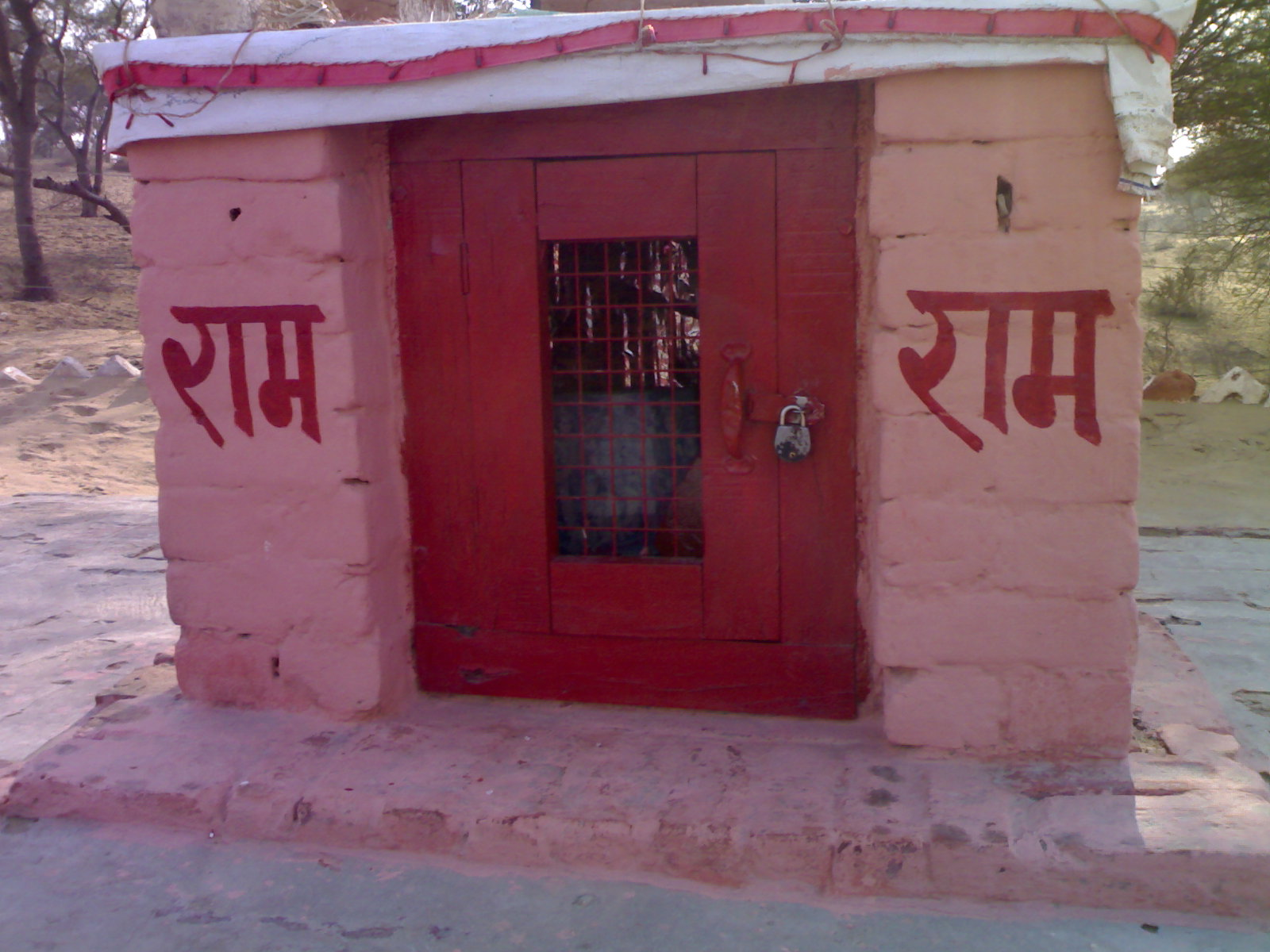 This photo show you small Ram temple of Rojhri temple.This photo is created by me(user:Shemaroo aka Sivender Singh, ) Shemaroo (talk) 04:28, 4 March 2011 (UTC)